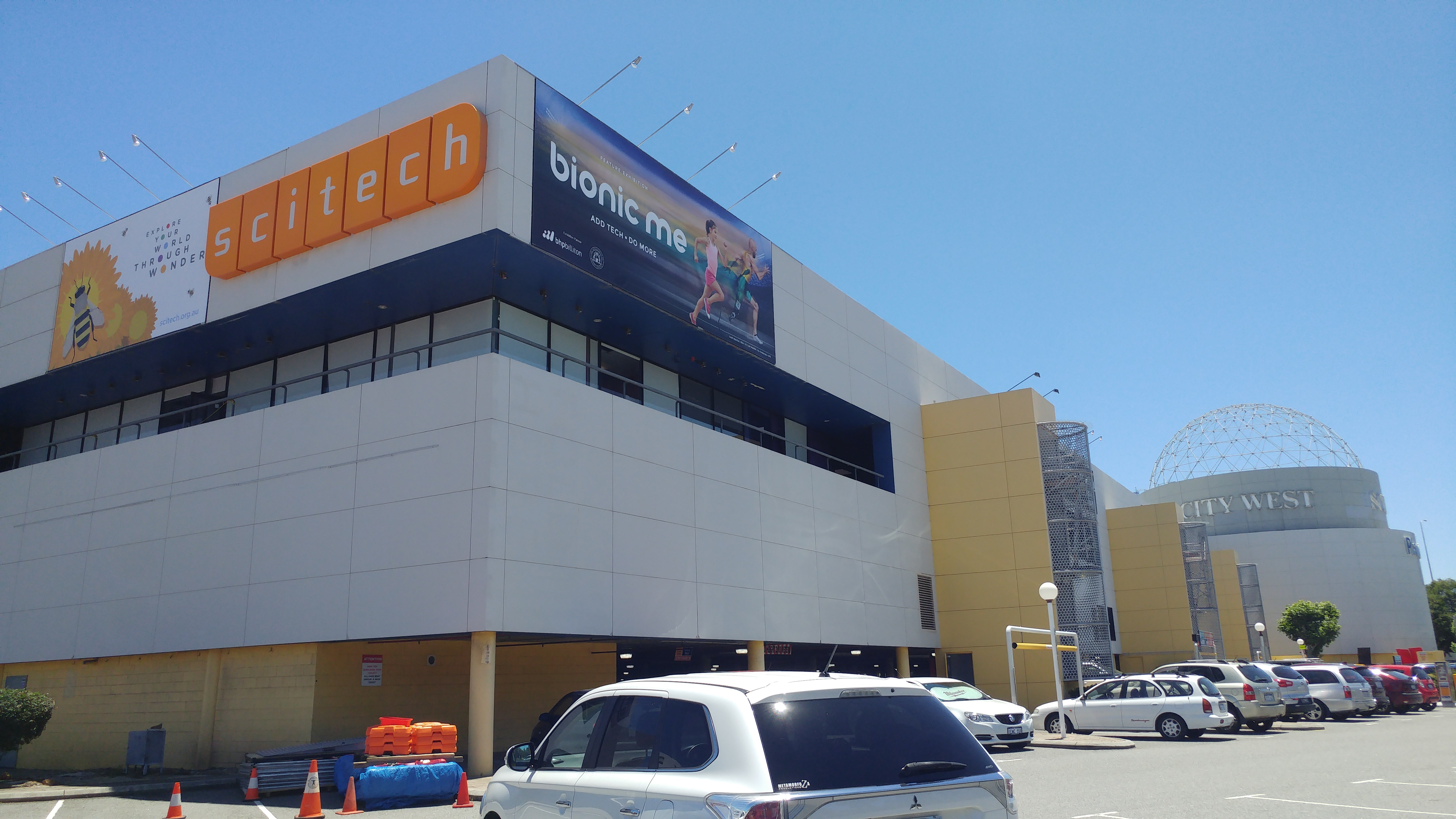 Scitech Discovery Centre has a very prominent presence situated on the corner of two main roads into Perth CBD. The outside of the building changes graphics every 6 months.